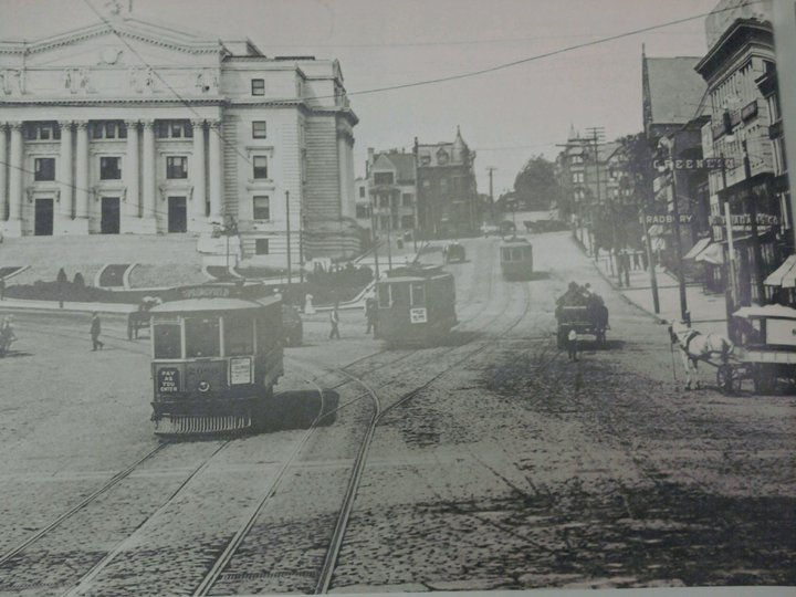 Photograph of Trolley Cars Running Near Newark Courthouse Circa early 1900s